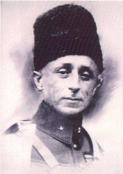 Refet Bele (1881-1963), an Ottoman Army officer, Turkish general and politician.